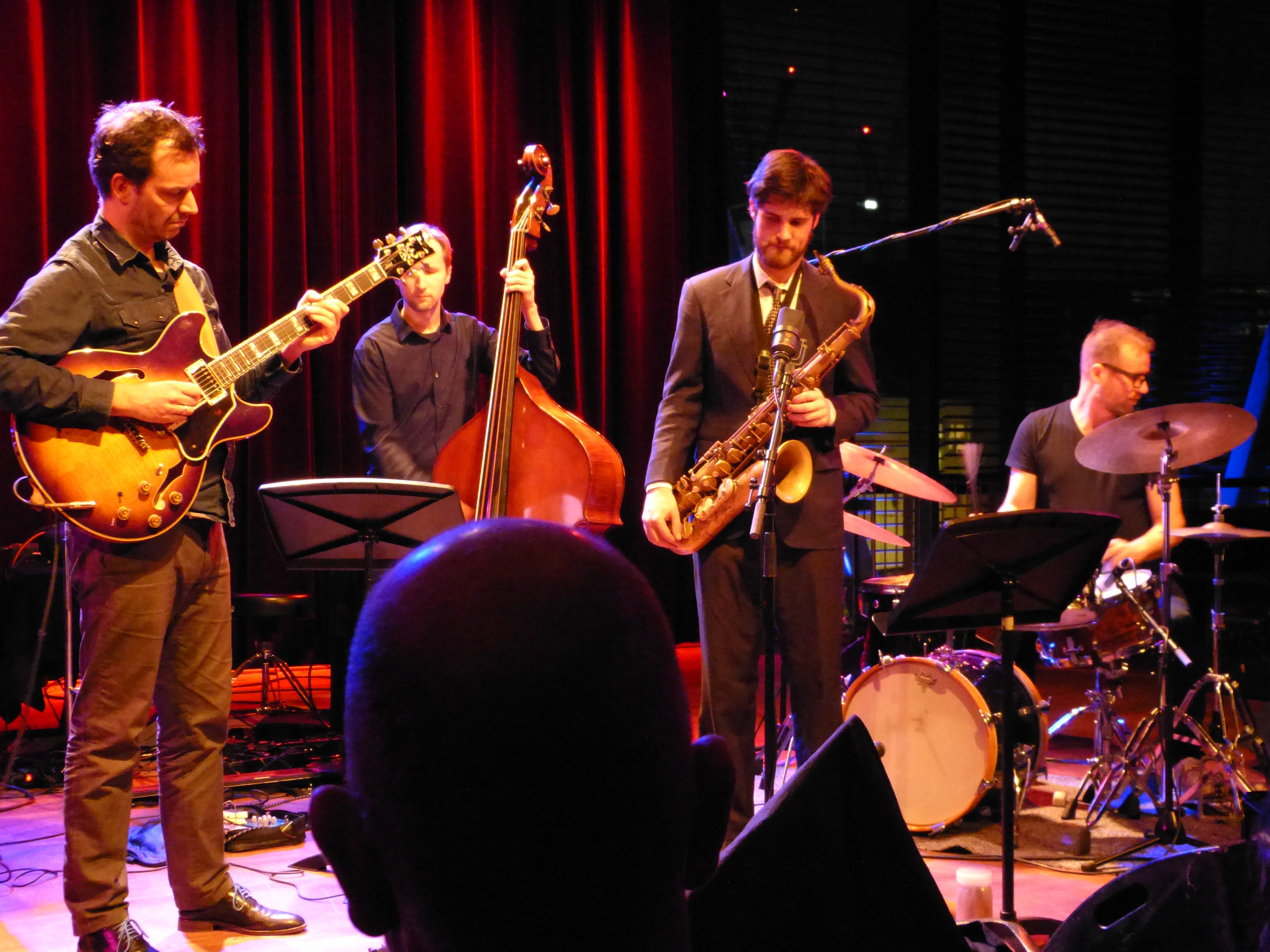 Jesse van Ruller Trio & Gideon Tazelaar in concert at Jazzfest Minifest of the Bimhuis in Amsterdam, Netherlands, January 4th, 2020 (Jesse van Ruller (g), Martijn Vink (dr), Clemens van der Feen (b) and Gideon Tazelaar (ts))